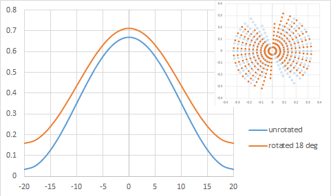 Inset: The orientation of the dipole illumination (40 nm pitch, 0.33 NA) is rotated by 18 degrees from the center to the edge of the arc-shaped ring field.refA. V. Pret et al., Proc. SPIE 10809, 10809A (2018). The hollow dots indicate the intended orientation. Since the new rotated locations (solid dots) include those which do not help the image but in fact only contribute background light, the image is degraded.refThe Need for Low Pupil Fill in EUV Lithography (SemiWiki) refThe Need for Low Pupil Fill in EUV Lithography